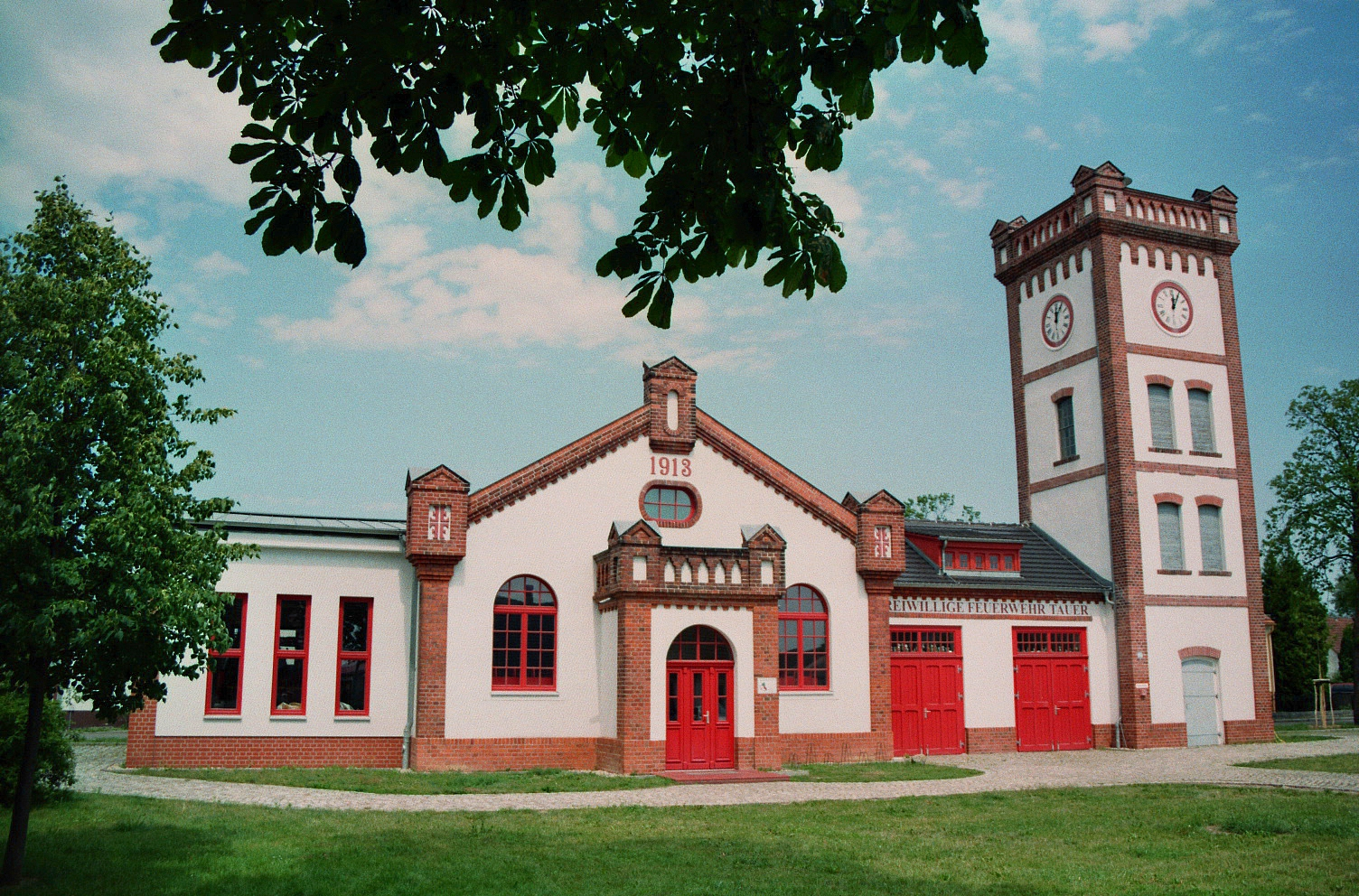 Fire station of Tauer, Landkreis Spree-Neiße, Brandenburg, Germany. The building is a listed cultural heritage monument